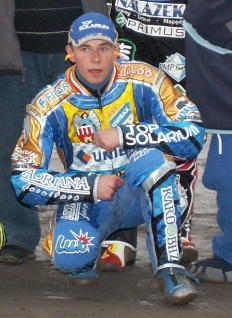 Karol Ząbik before one of 2007 matches